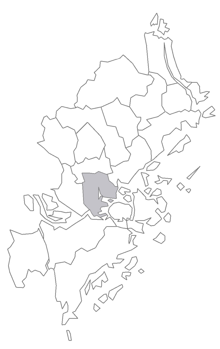 Map describing the location of Danderyd Ship District in Stockholm County, Sweden.